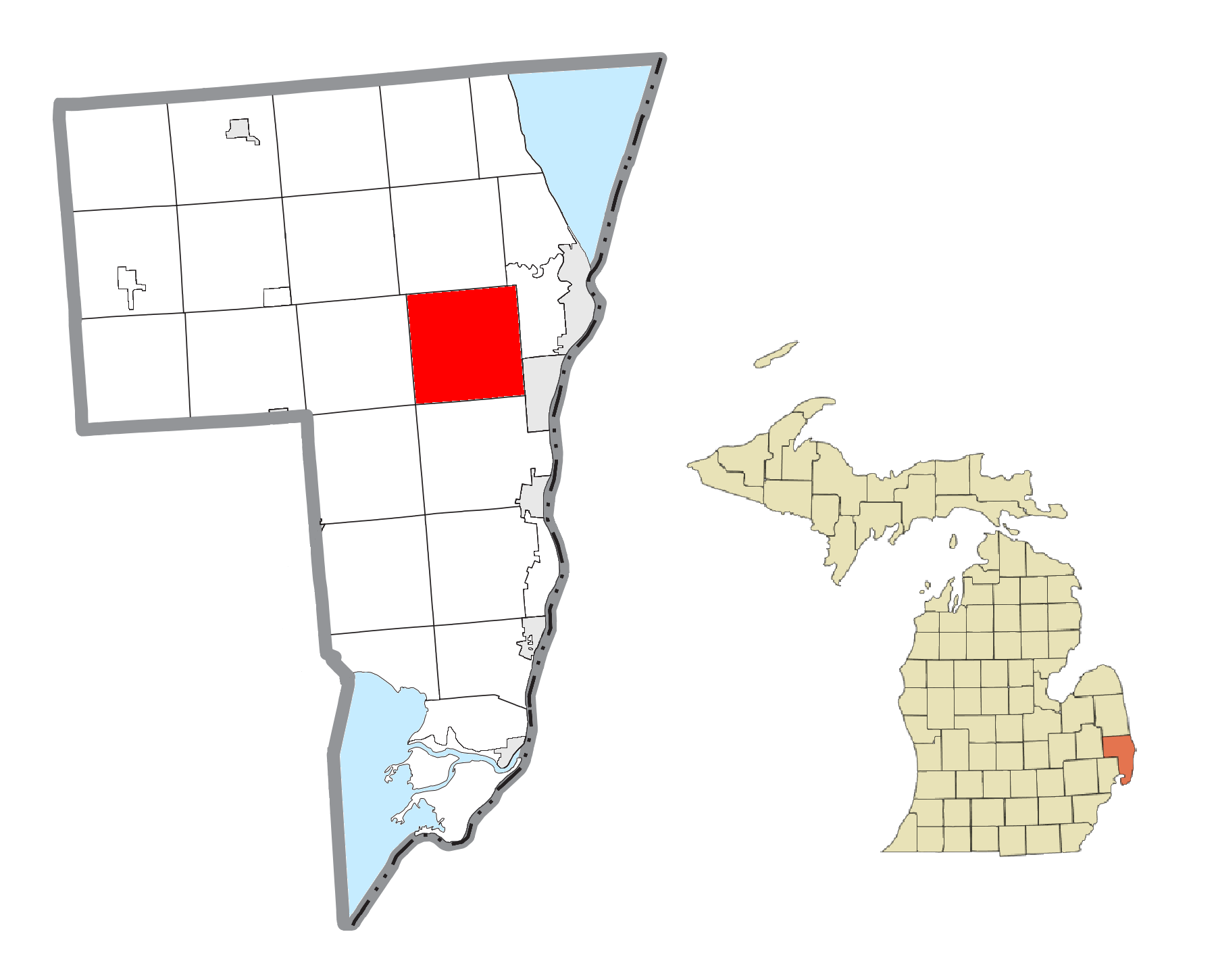 Kimball Township, MI